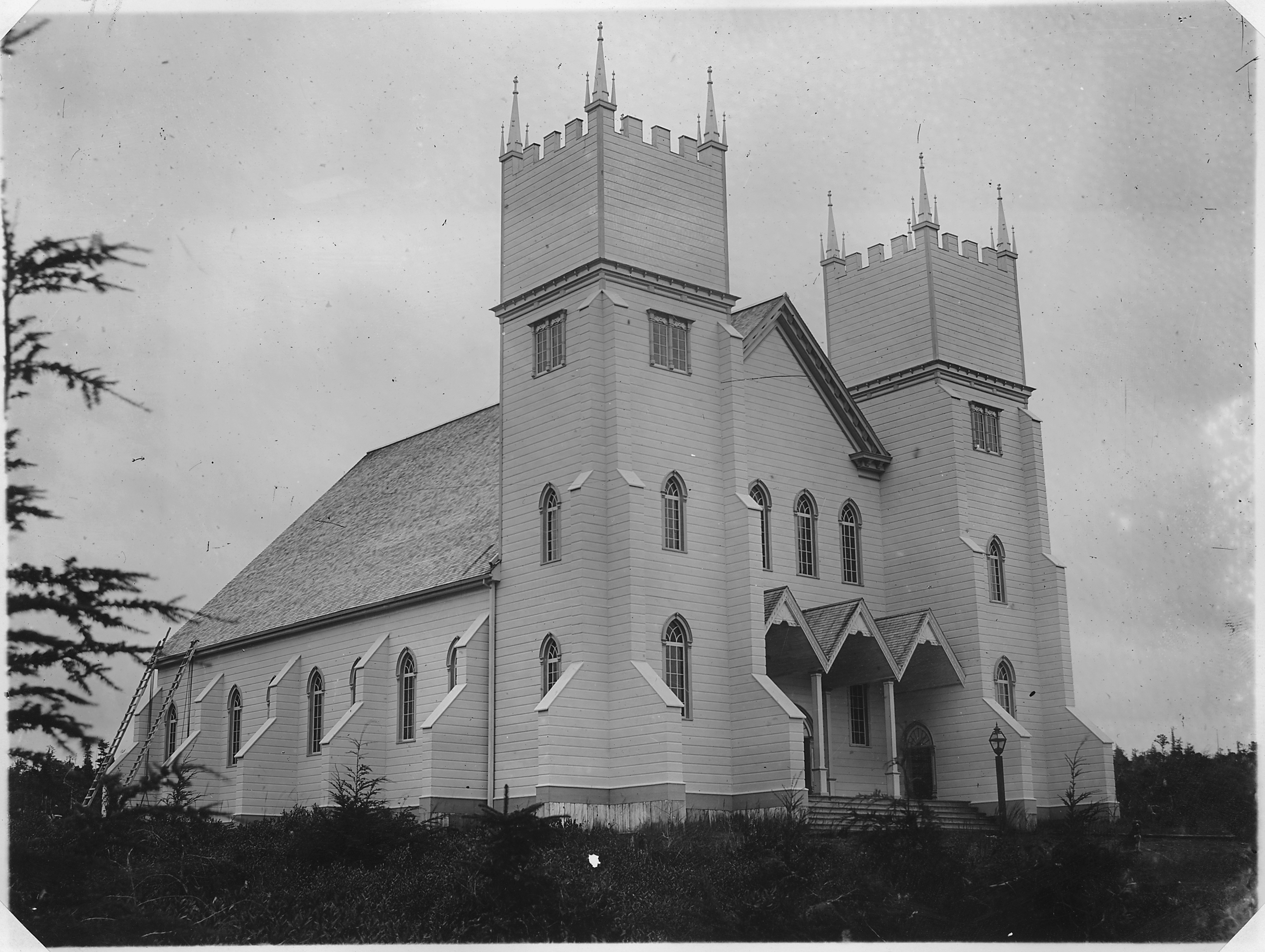 Scope and content: Side and front view of the church